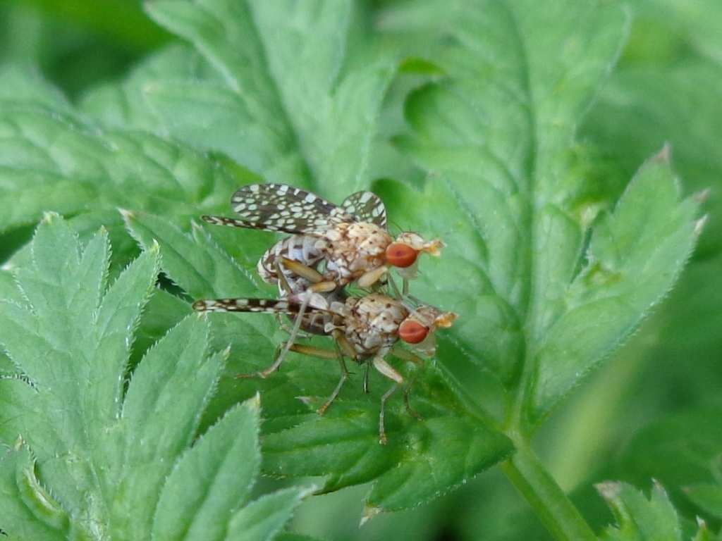 Trypetoptera punctulata. Found in Audriņi village near Rēzekne city, Latvia